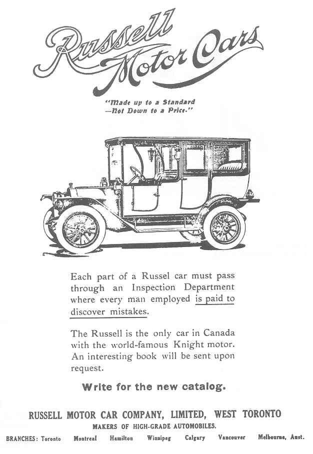 Advertisement for the Russell Motor Car Company of Toronto, Canada.